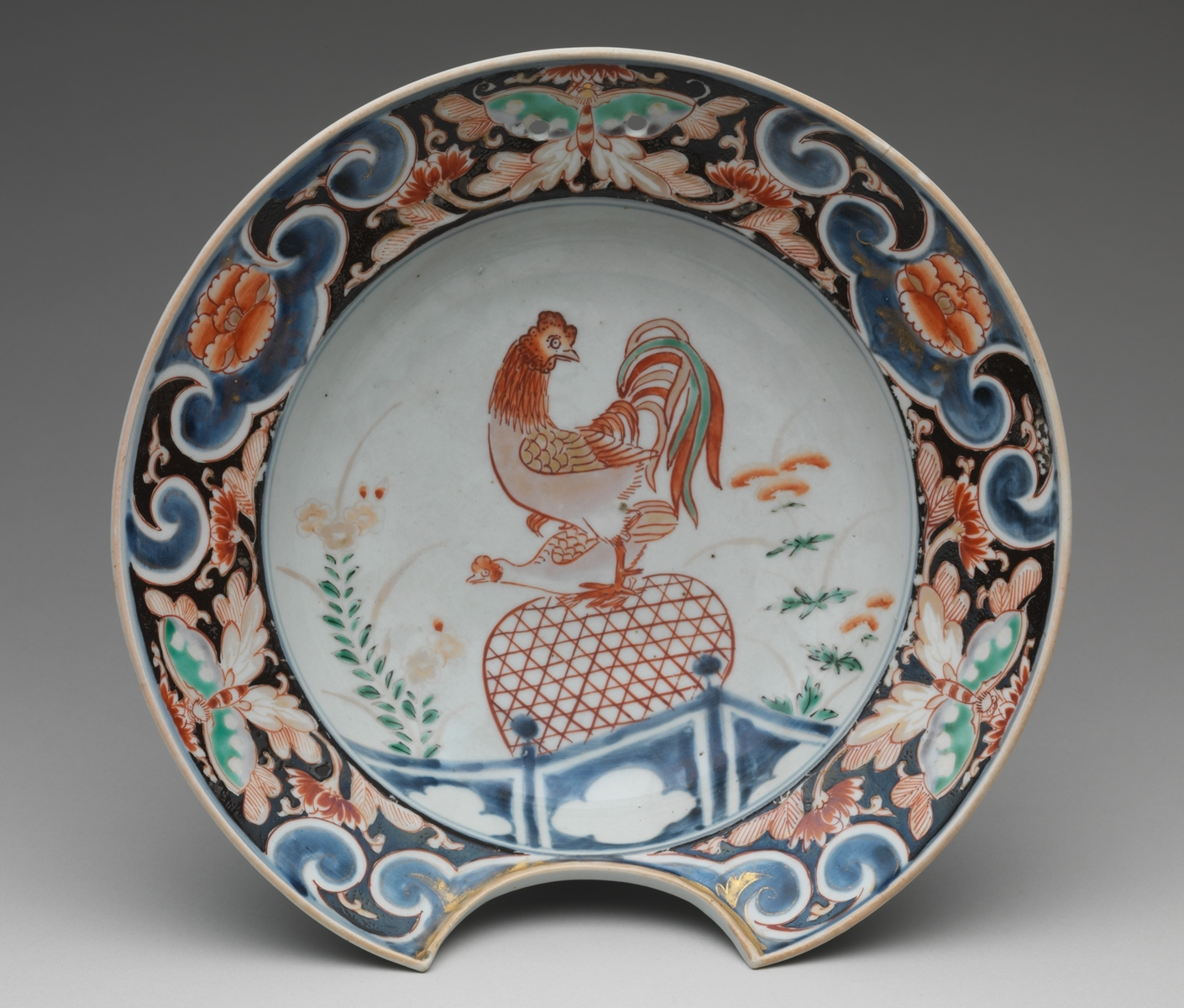 Japan; Barber's bowl; Ceramics